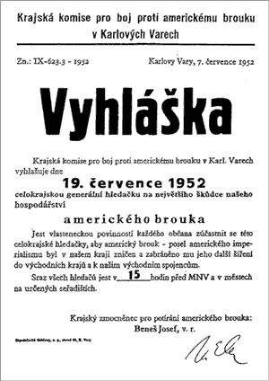 Public notice about a preventive action against potato beetle in Karlovy Vary (Czechoslovakia)